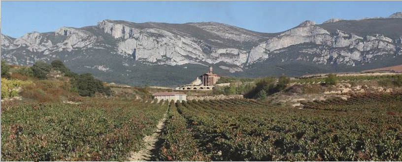 An image of the Eguren Ugarte Vineyard in Basque Country Spain